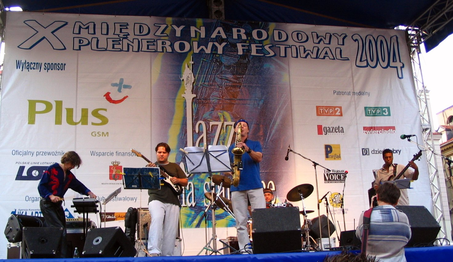 Walk Away in concert with Bill Evans, Warsaw Old Town, 2004-07-24.